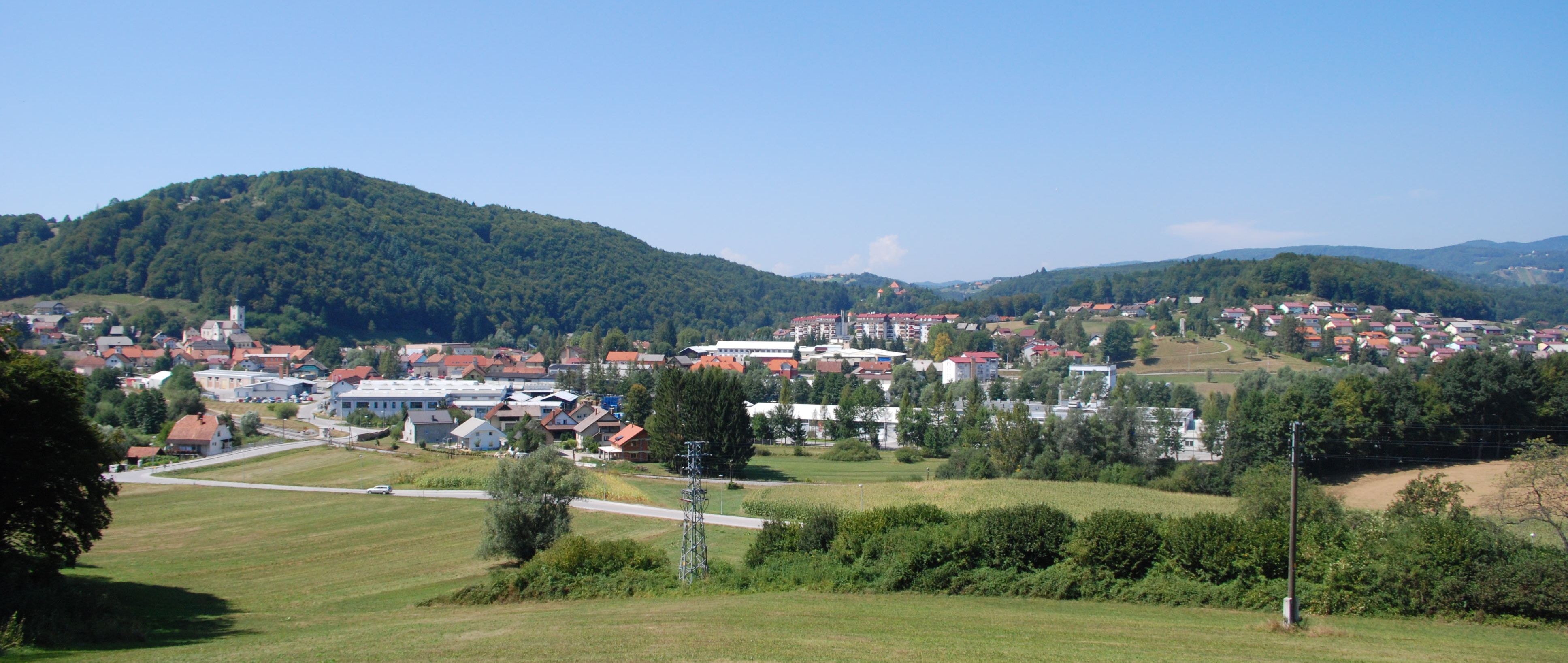 A vista of Mirna (Slovenia) from a meadow above St. Helen's Church (southeast of the settlement).